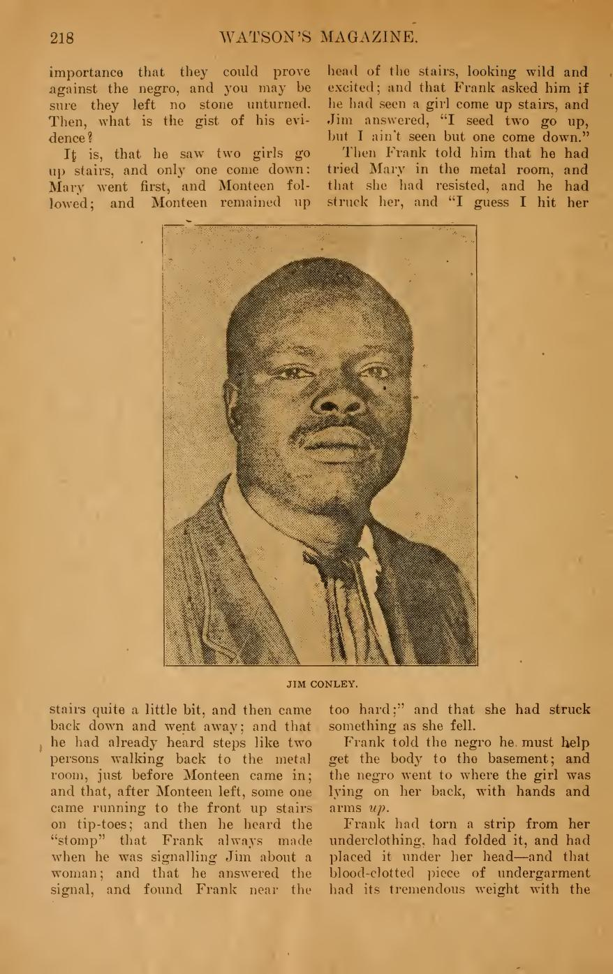 Image of Jim Conley on page 218 of Tom Watson's Magazine